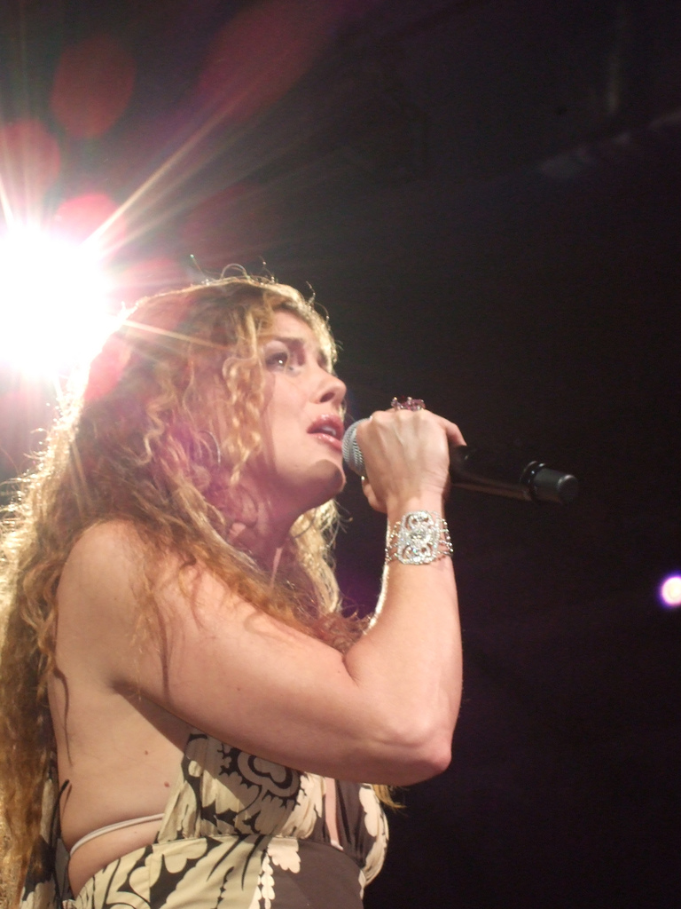 Faith Hill in concert in Dallas on the Soul 2 Soul II tour